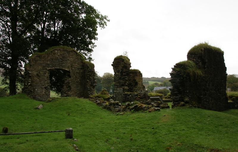 Saddell Abbey, Argyll and Bute, Scotland - north transept and choir